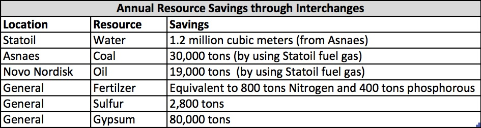 A table illustrating annual resource savings seen at Kalundborg as of 1997